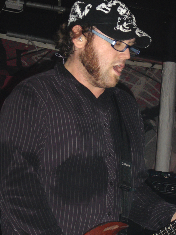 Lead guitarist of Motion City Soundtrack, Joshua Cain.